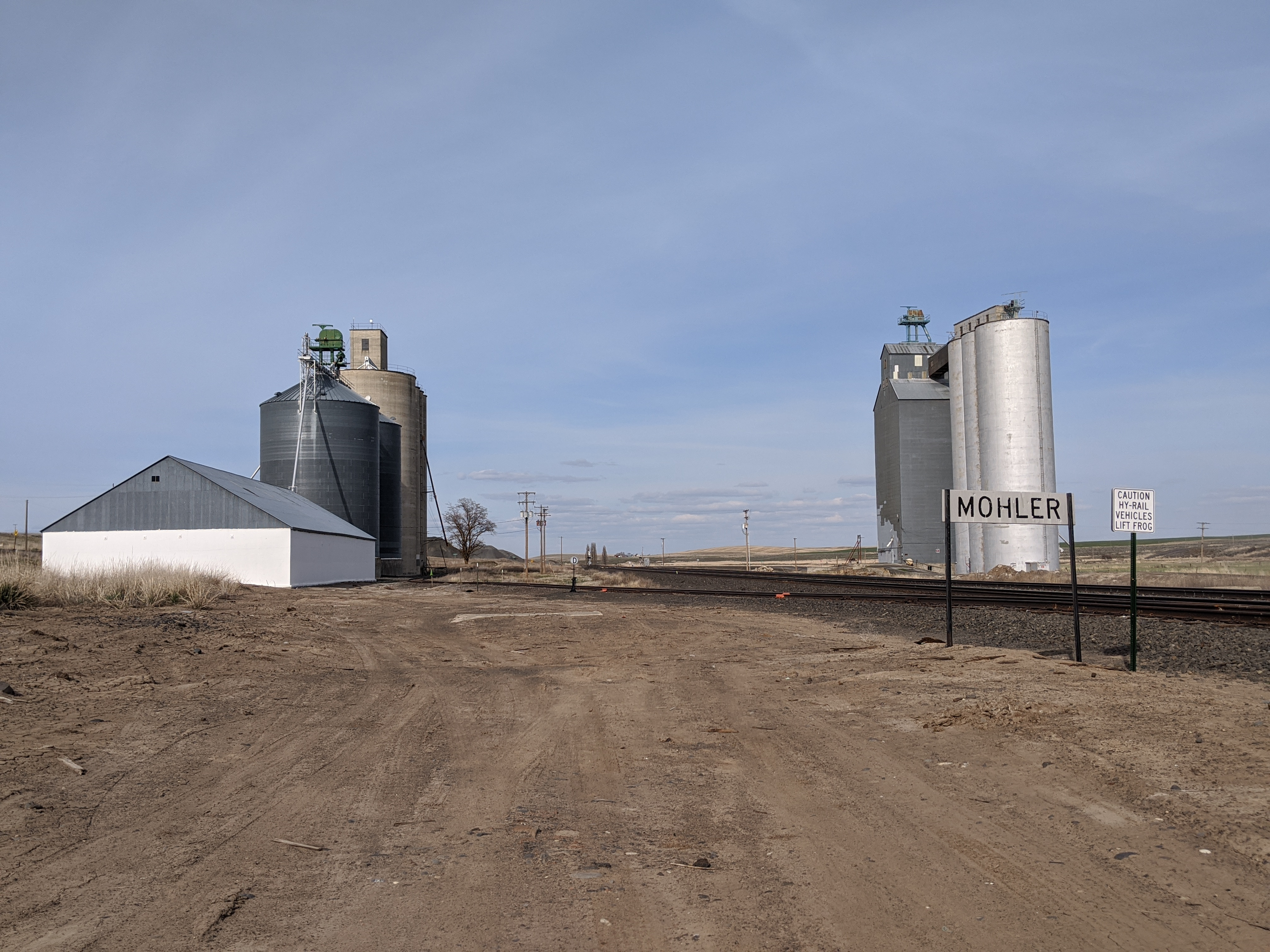 Station Sign on the BNSF Columbia River Subdivison.